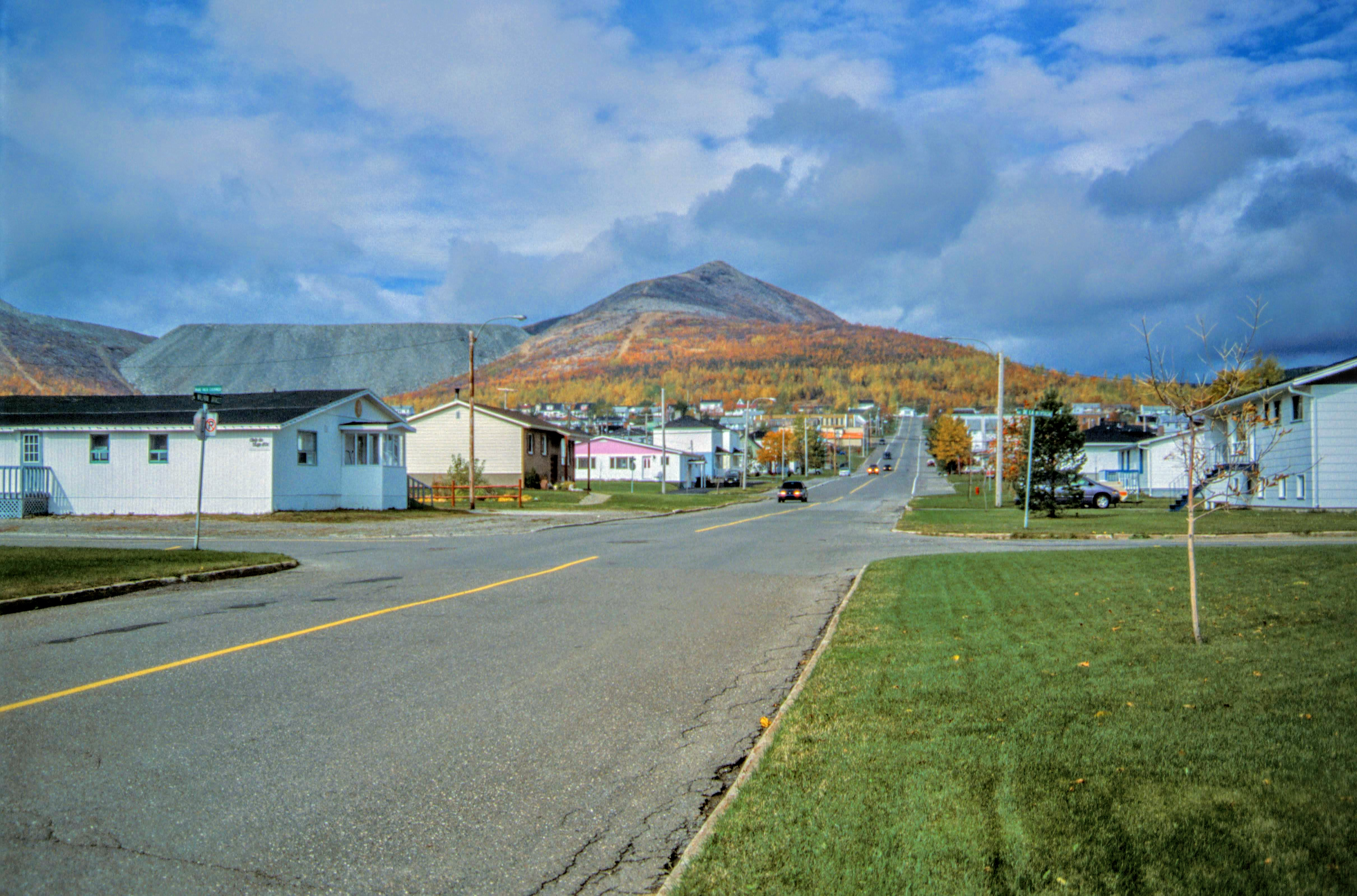 The canadian town of Murdochville